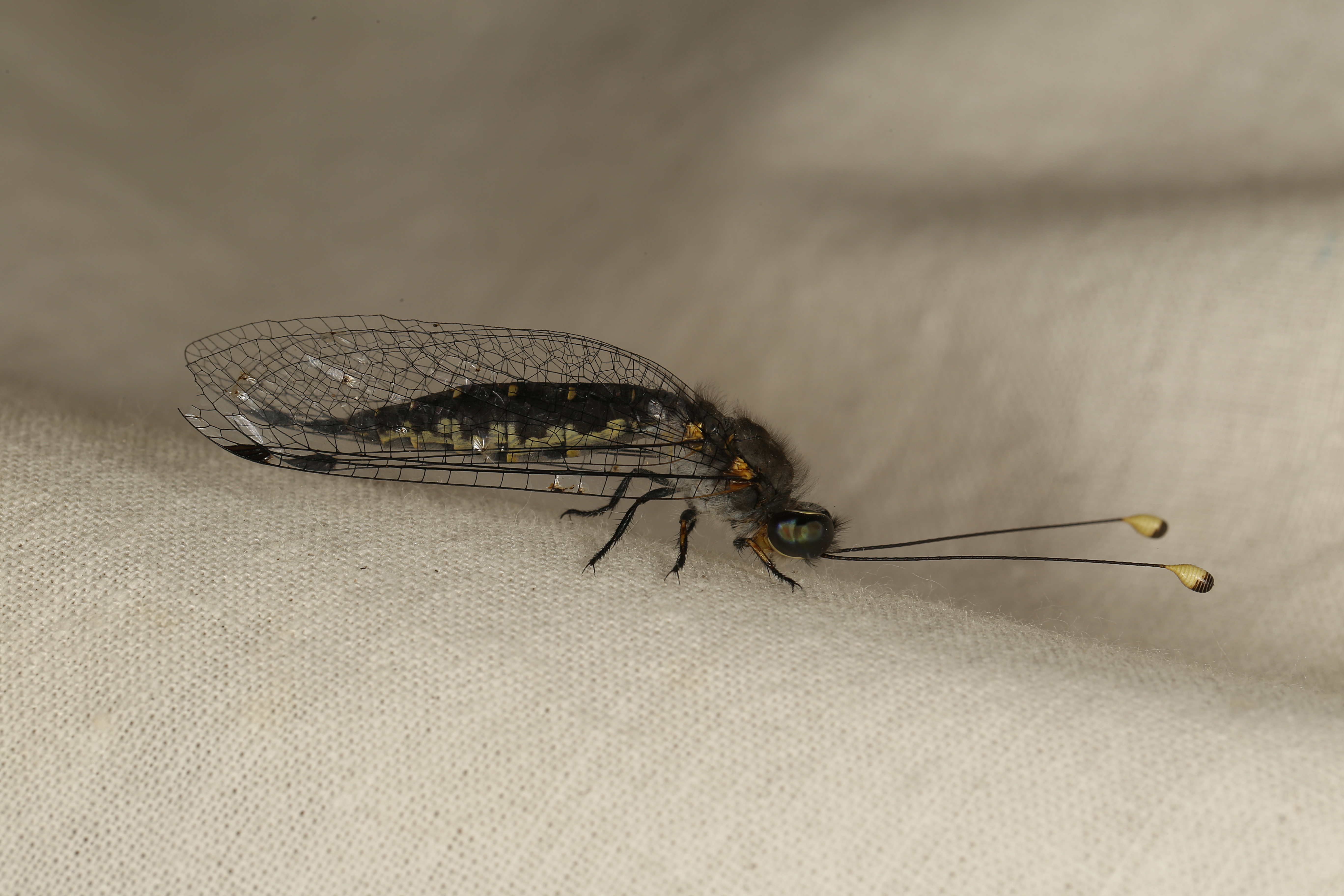 Suphalomitus difformis (McLachlan, 1871), to actinic light, Little Desert National Park, 25 January 2017